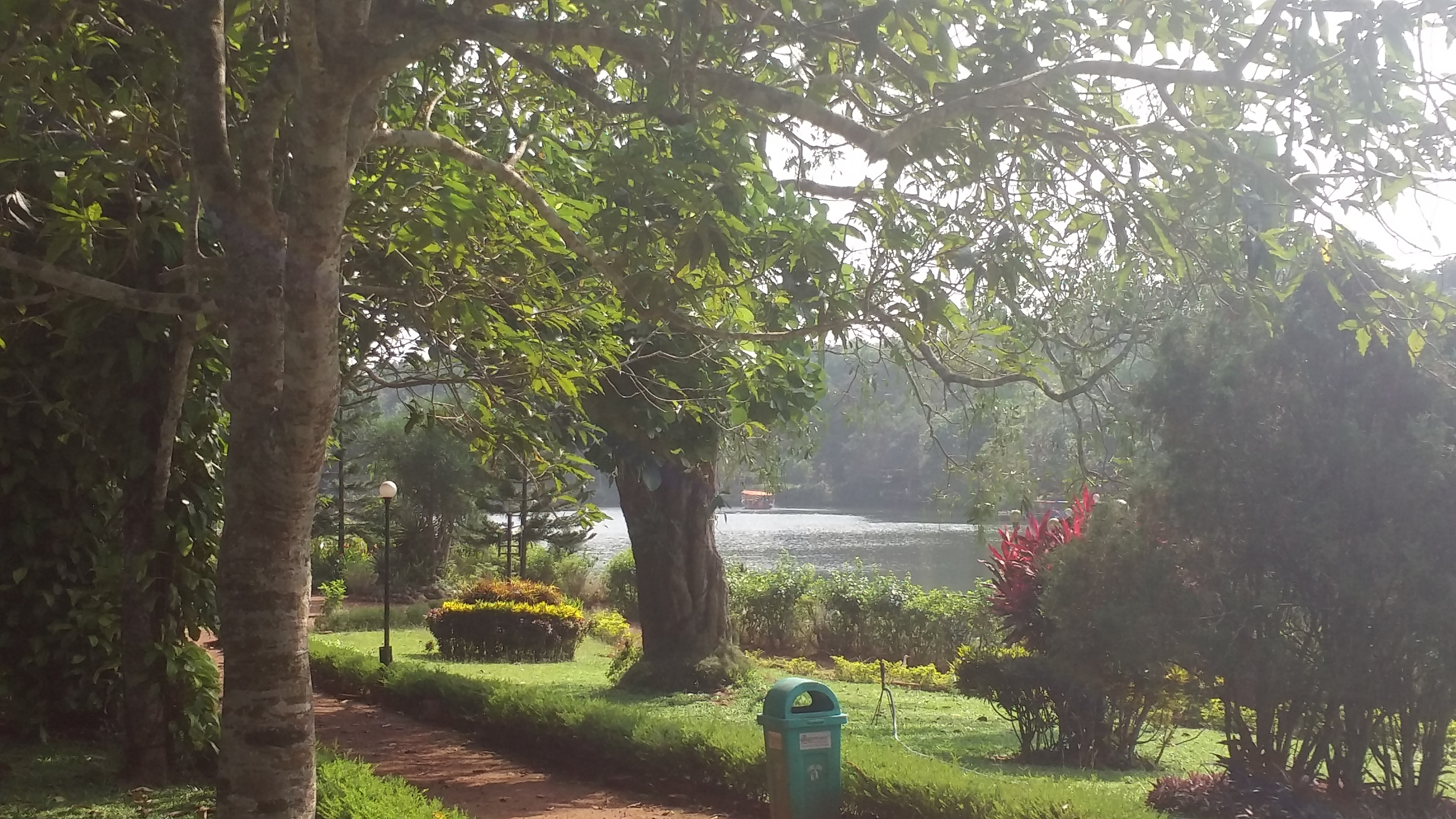 Pilikula Botanical Garden in Mangalore - Footpath